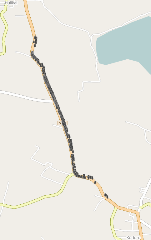 Snapshot of trees mapped on OSM which are planted by Salumarada Thimmakka on the stretch of road from Kuduru to Hulikal on State Highway 94